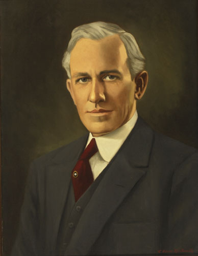 Official Governor's portrait of Hardee